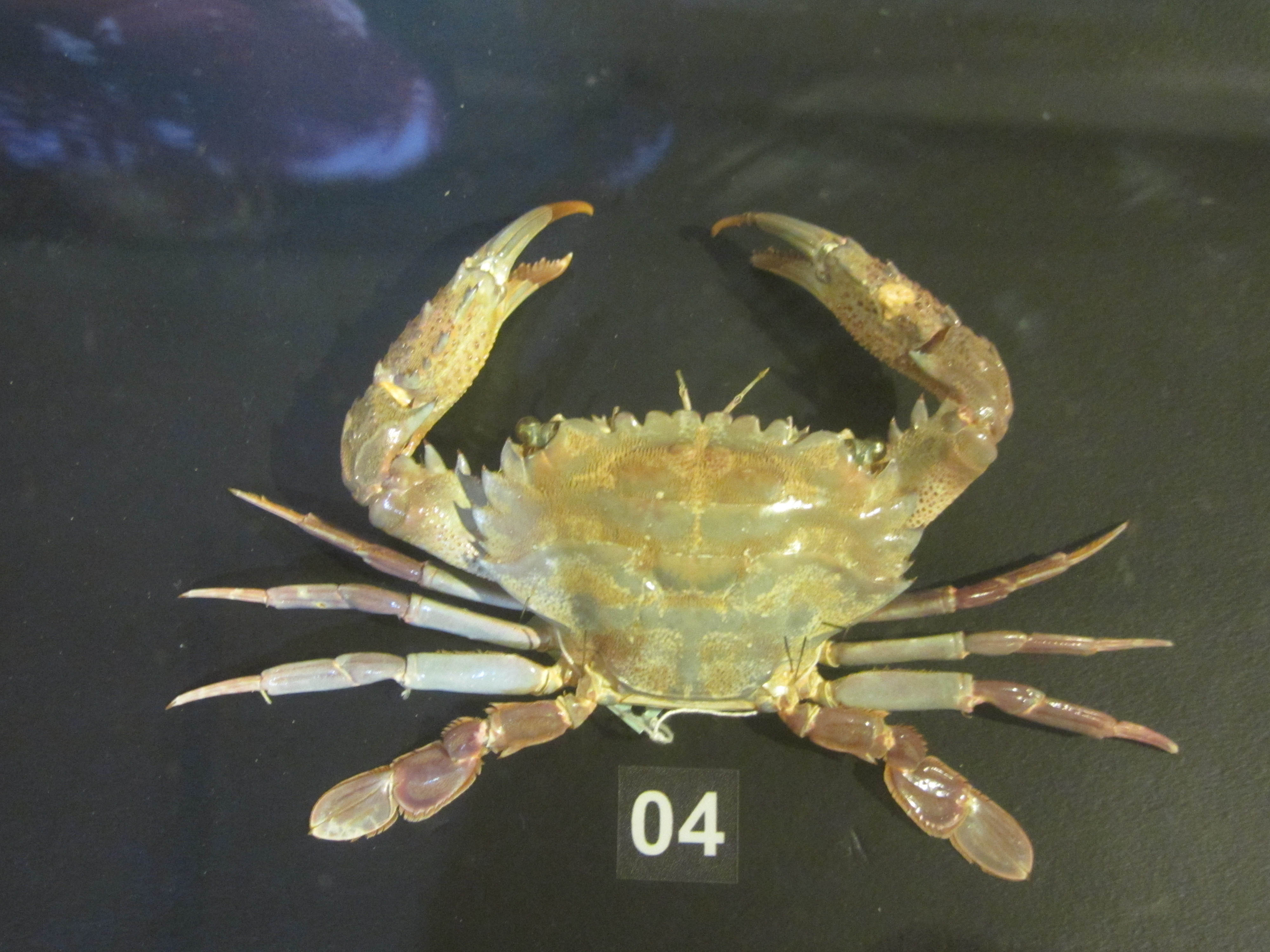 Specimen of Thalamita